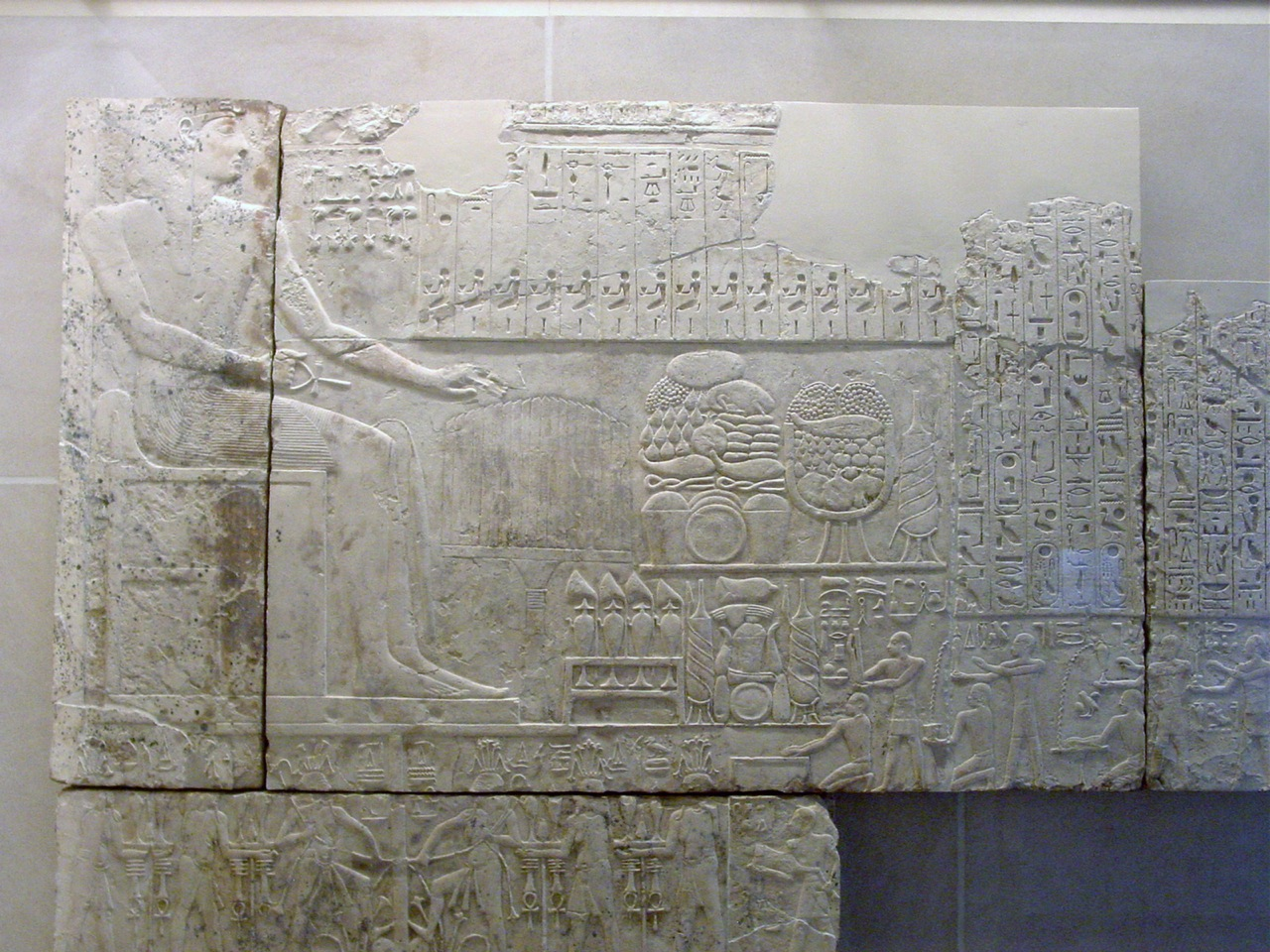 Reliefs from the Abydos chapel of Ramesses I which was built by Seti I, this king's son and successor to honour his father's memory. The finely cut chapel reliefs were presented by JP Morgan in 1911 to the Metropolitan Museum of New York where they are now on display.